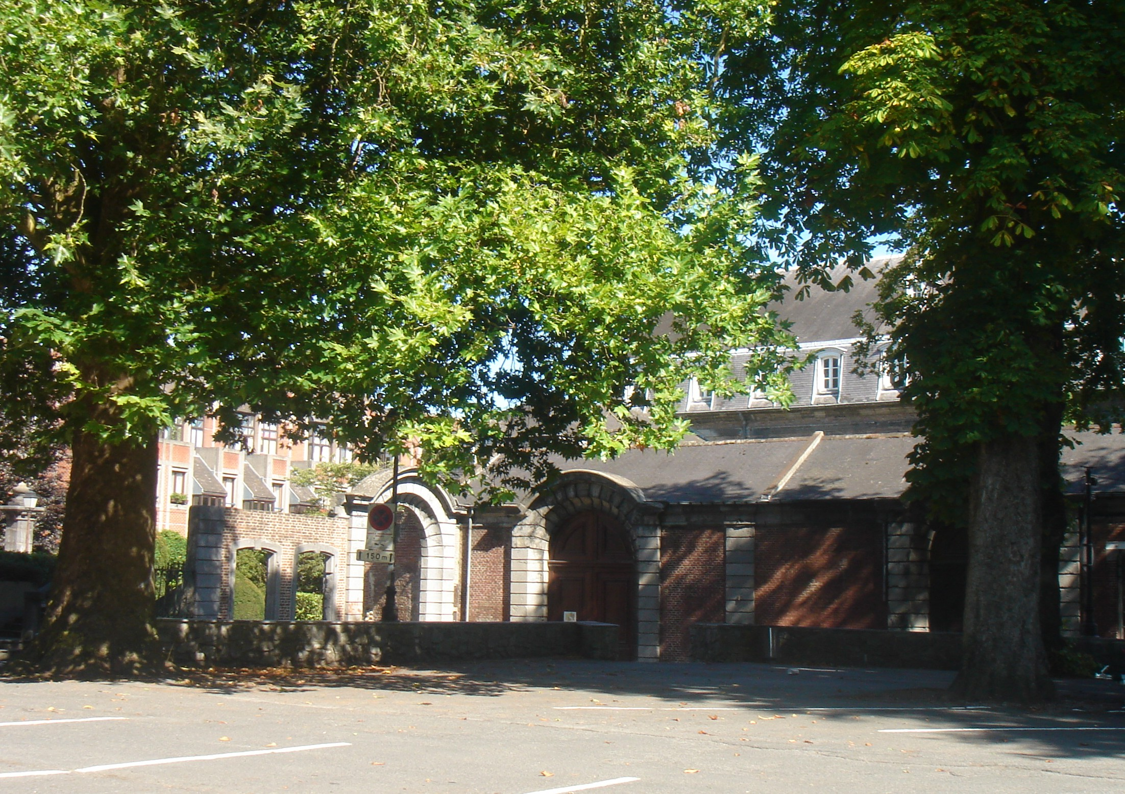 Old building of nuns covent in Maubeuge - France